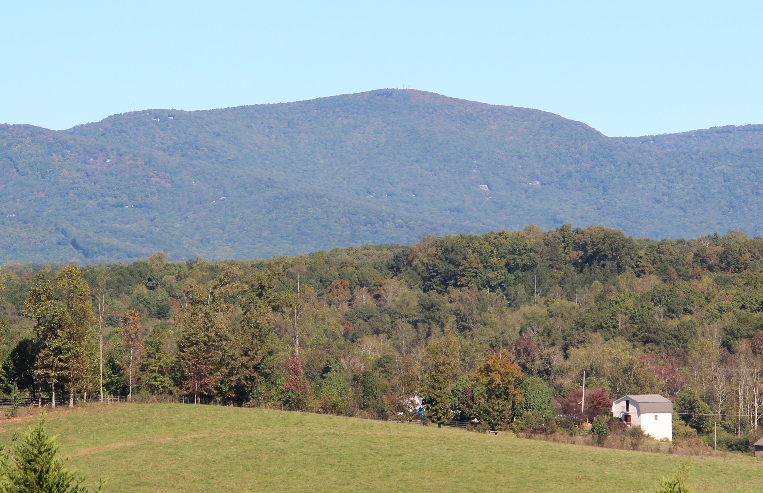 Mount Oglethorpe, October 2015